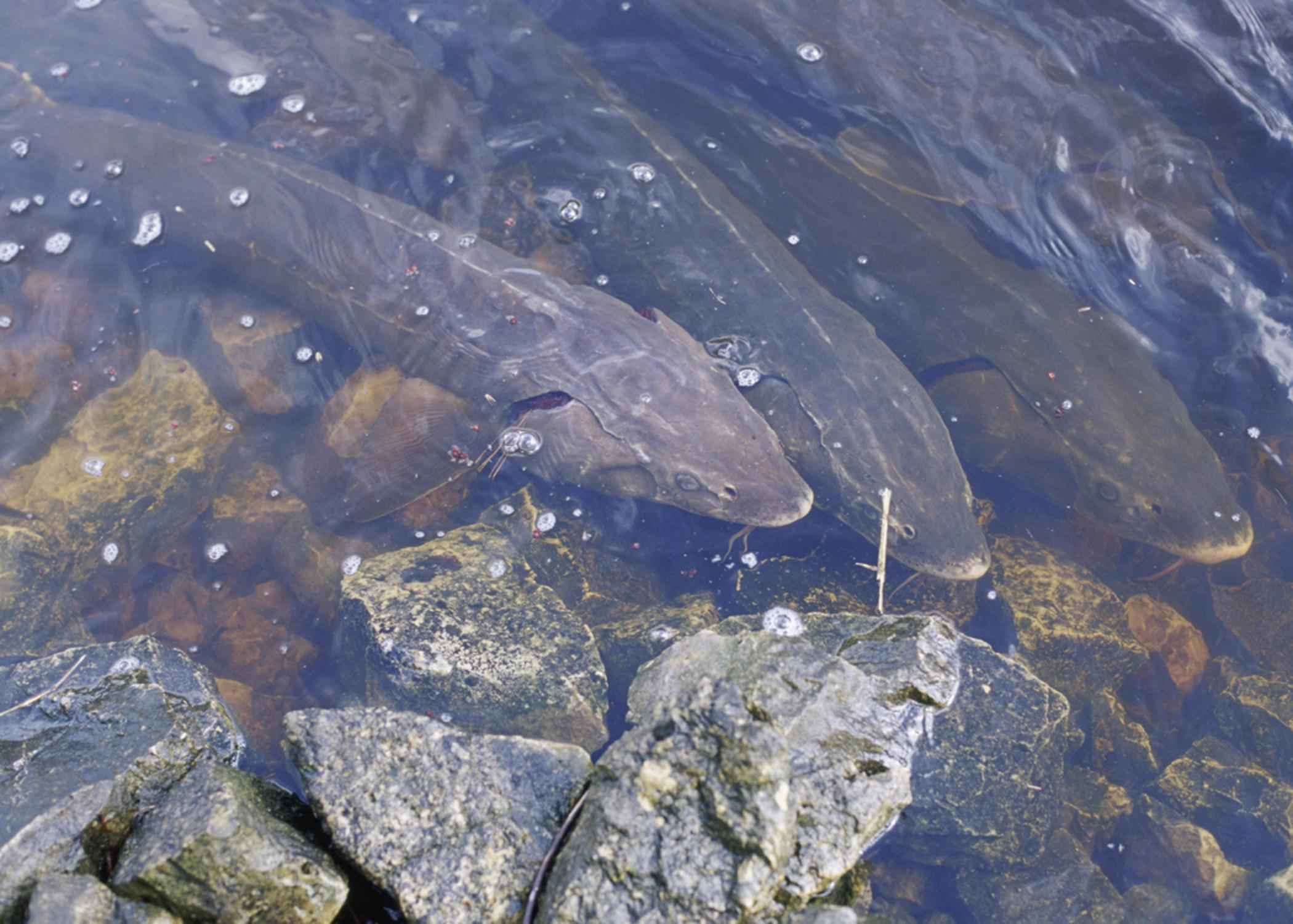 Image title: Strugeon fish in water acipenser fulvescens Image from Public domain images website